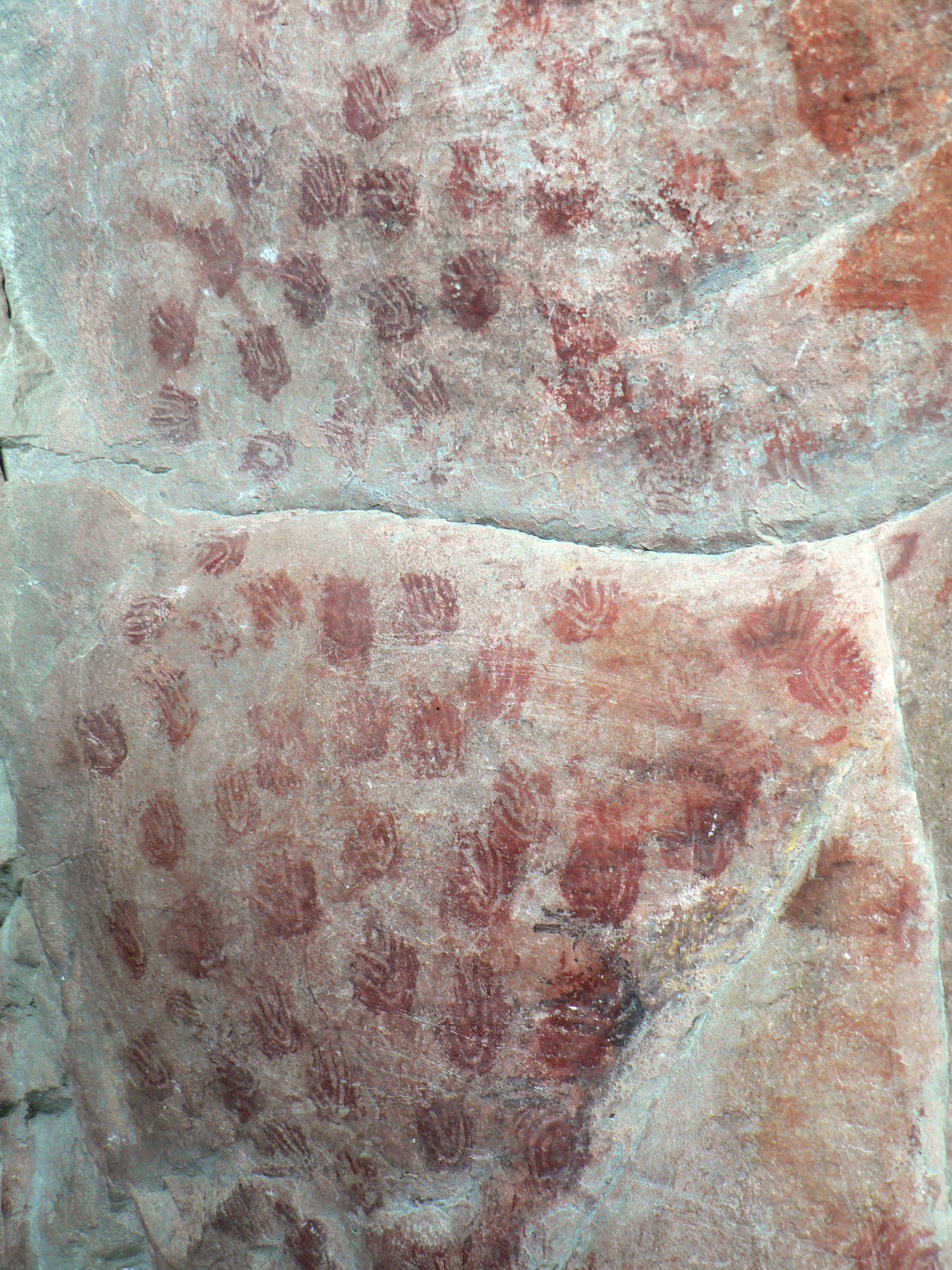 Rock art hand patterns in the Eands Bay Cave part of the Baboon Point provincial heritage site, an archaeological landscape. This media shows a South African Protected Site with SAHRA file reference 0000000000.